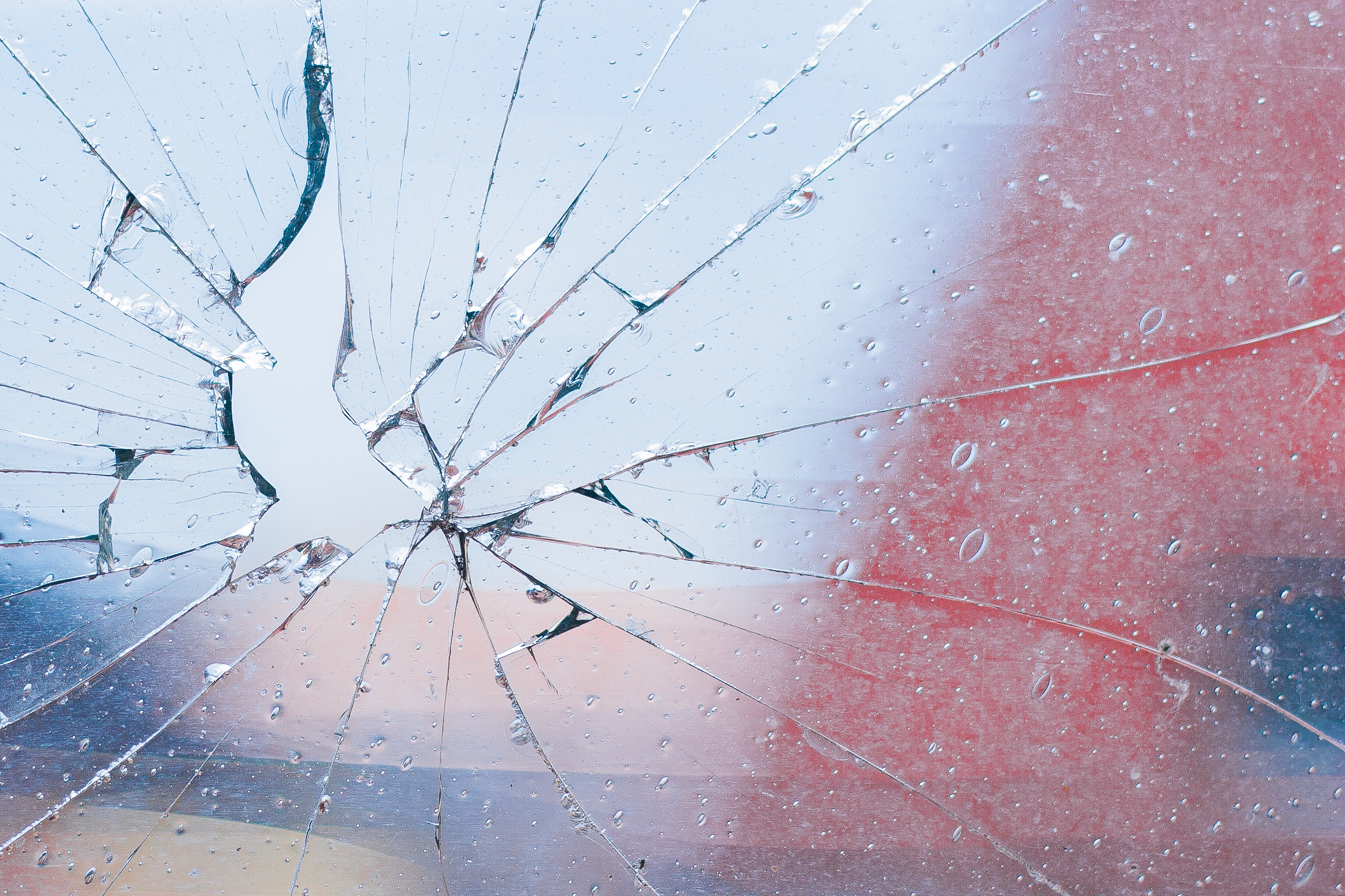 Crack in the window of St. Andreas (Babenhausen) tower.